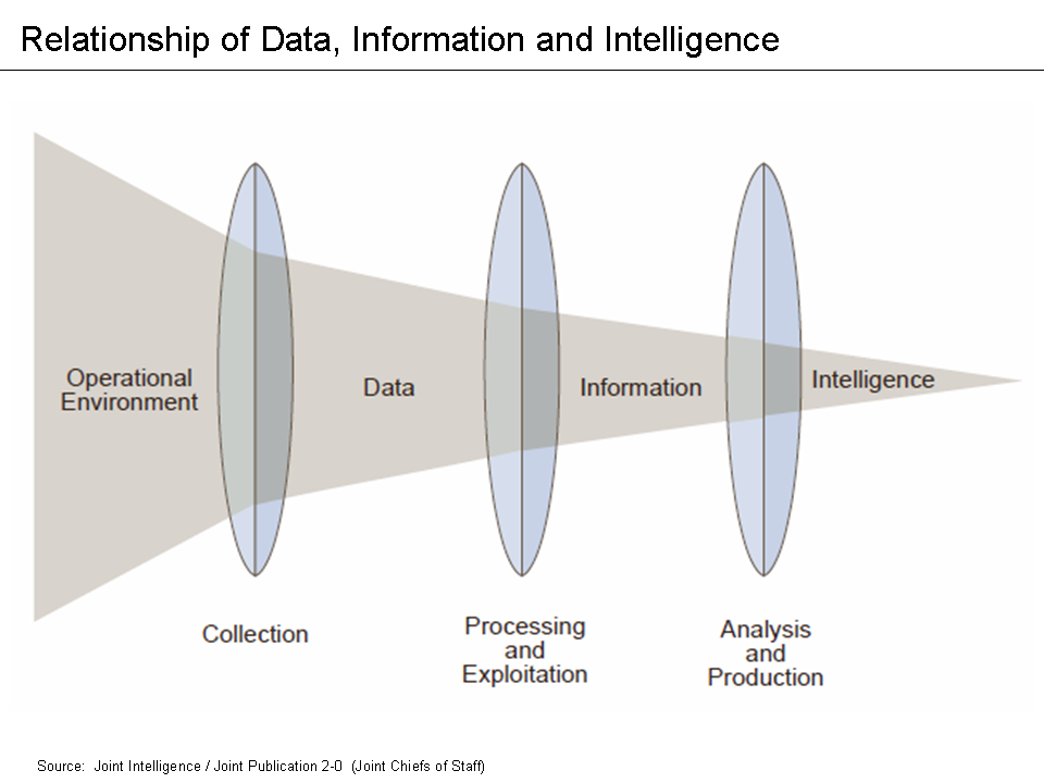 U.S. Joint Chiefs of Staff diagram of the relationship between data, information and intelligence